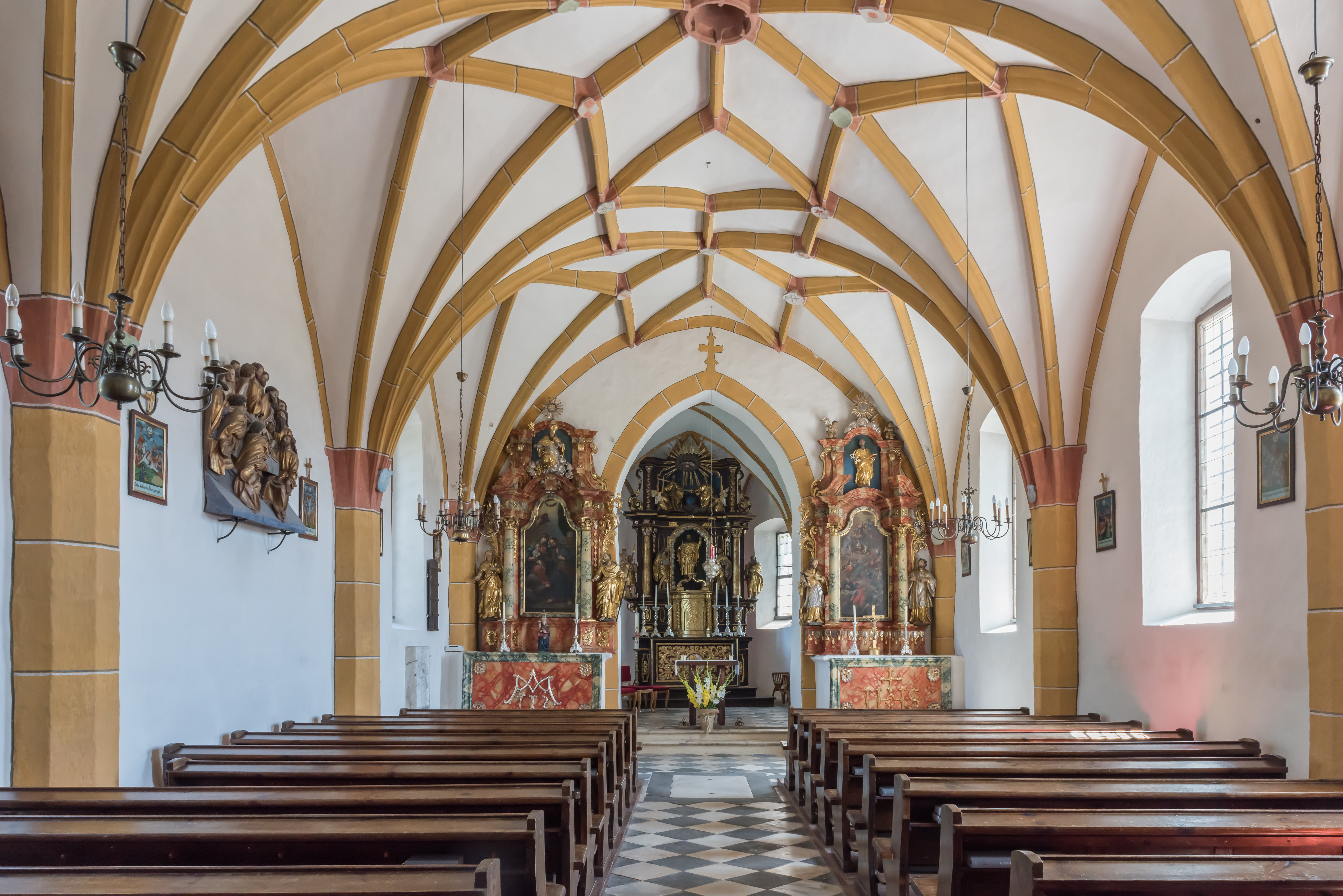 Nave of the parish church Saint Peter at Sankt Peter, municipality Sankt Georgen a. L., district Sankt Veit an der Glan, Carinthia, Austria, EU